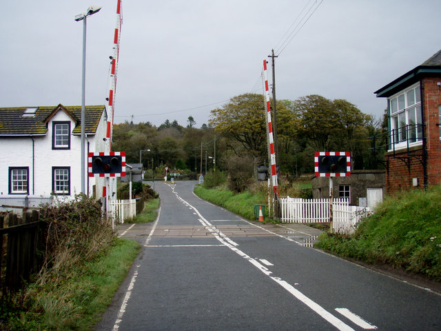 Level crossing at Dunragit, Dumfries and Galloway